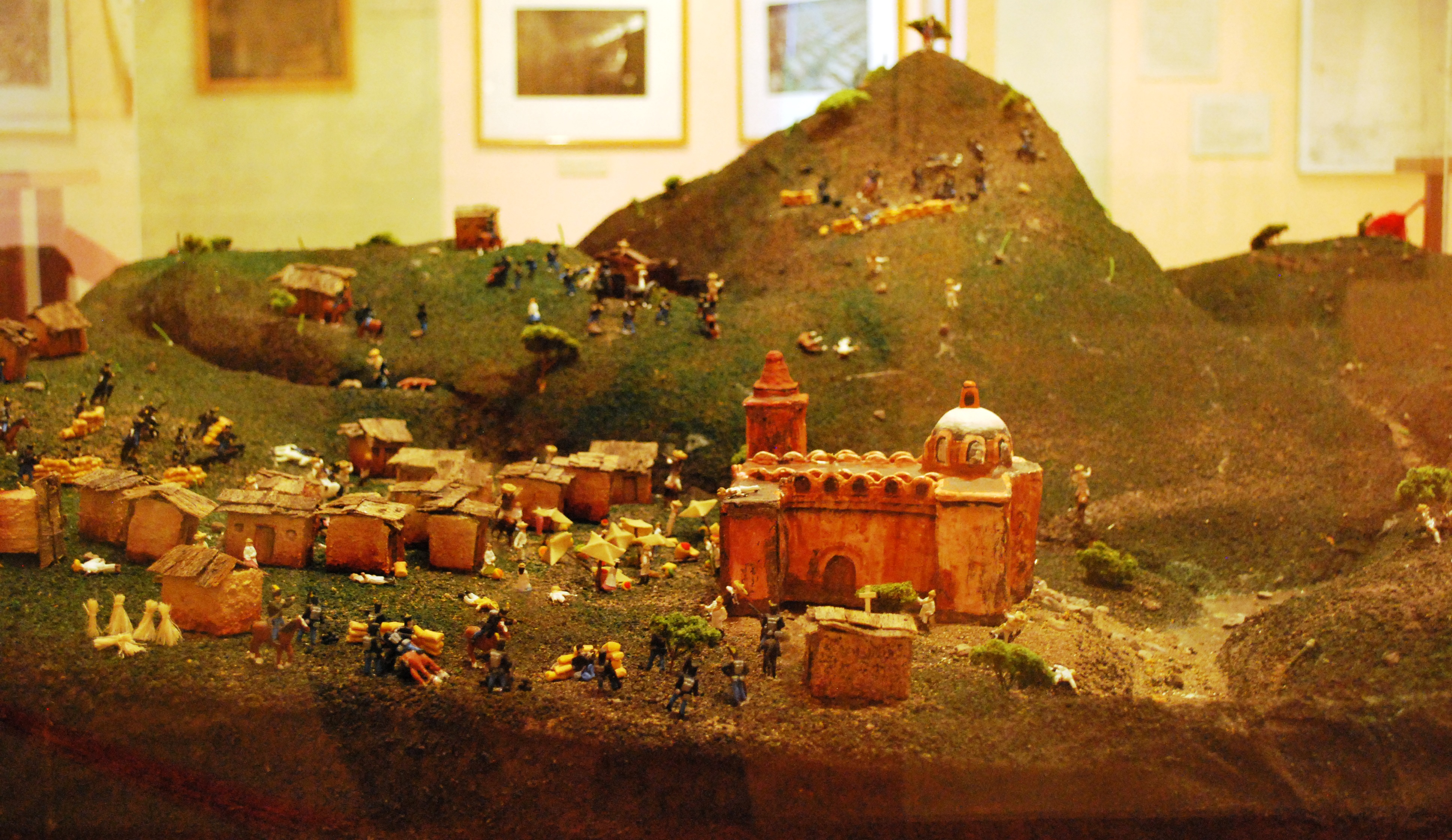 Model of Huajuapan during the early colonial period at the Regional Museum of Huajuapan in Huajuapan, Oaxaca